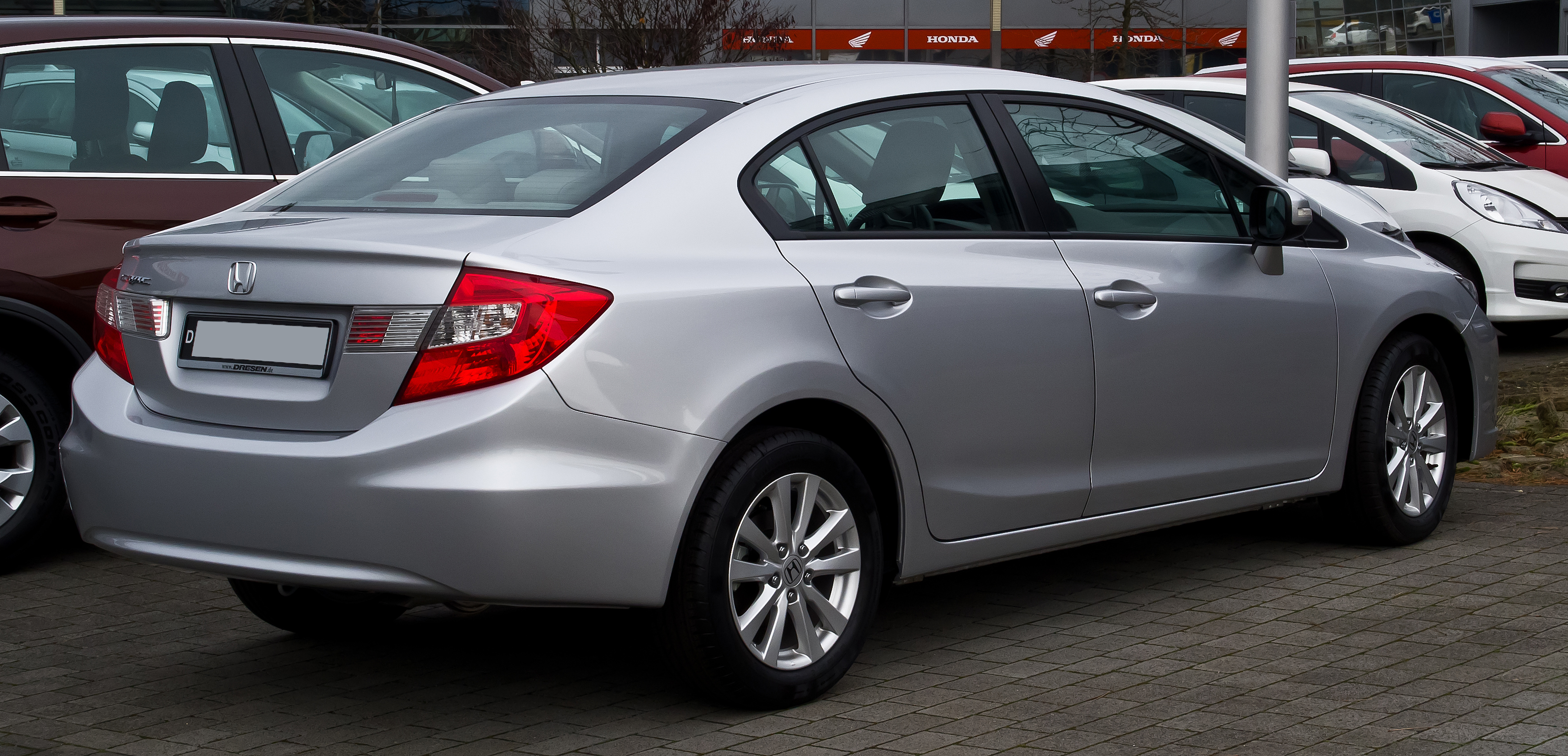 Honda Civic Stufenheck 1.8 i-VTEC Comfort (IX)